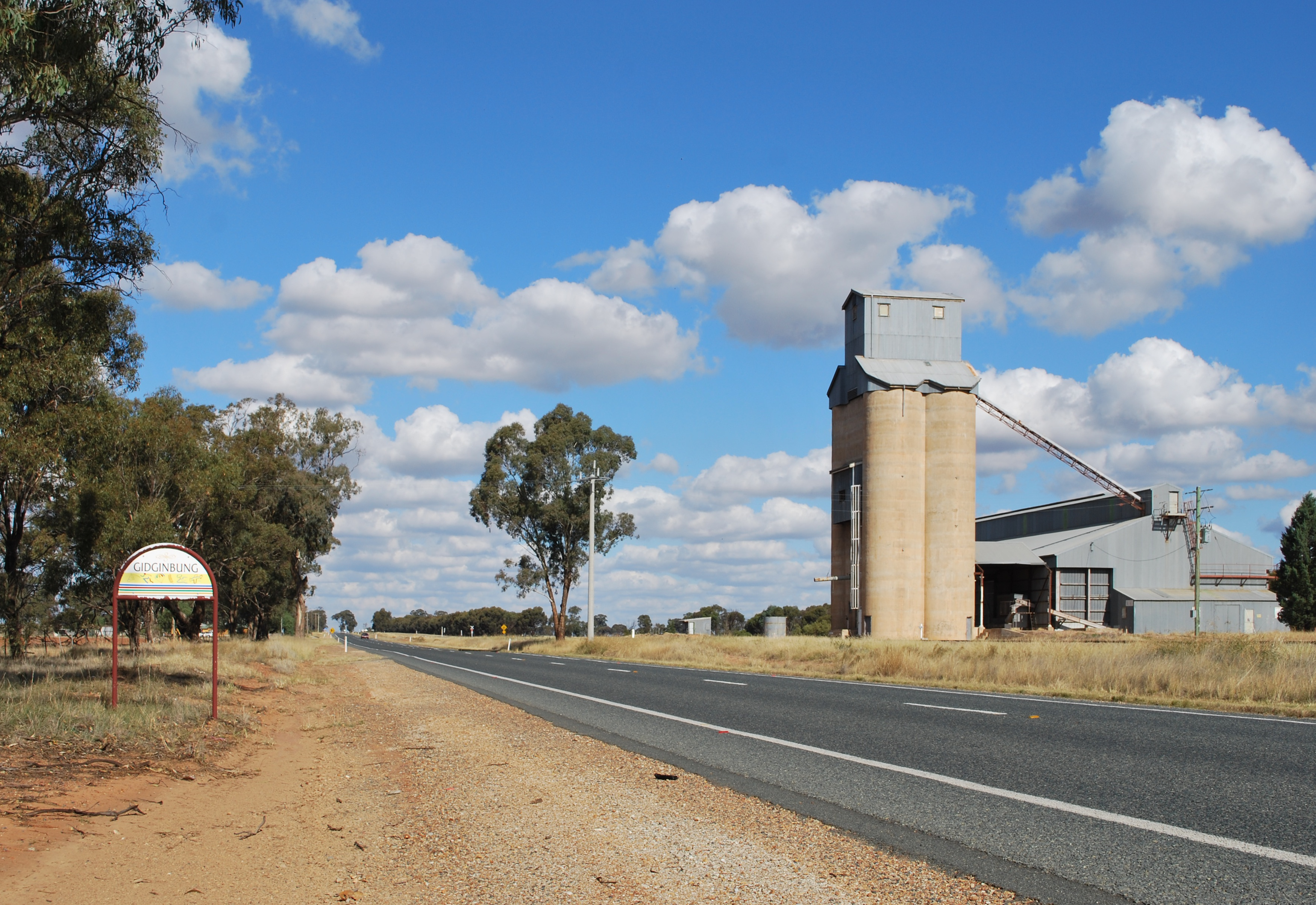 Town entry sign and rail silos at Gidginbung, New South Wales